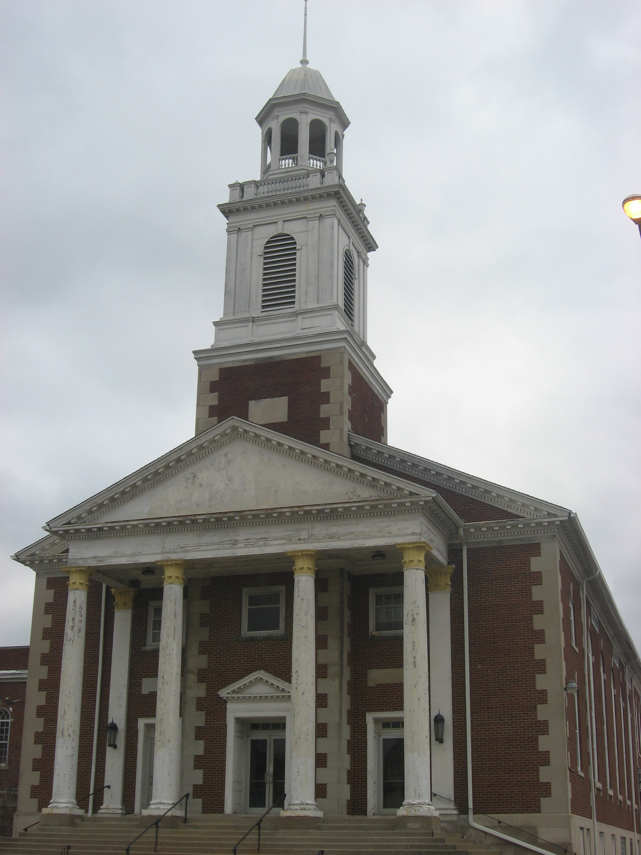 Front and western side of Richards Temple Church of God in Christ (originally Washington Congregational Church, and then Braden United Methodist Church throughout most of its history), located at 2013 Lawrence Avenue in Toledo, Ohio, United States. Built in 1924, it is part of the Englewood Historic District, a historic district that is listed on the National Register of Historic Places.